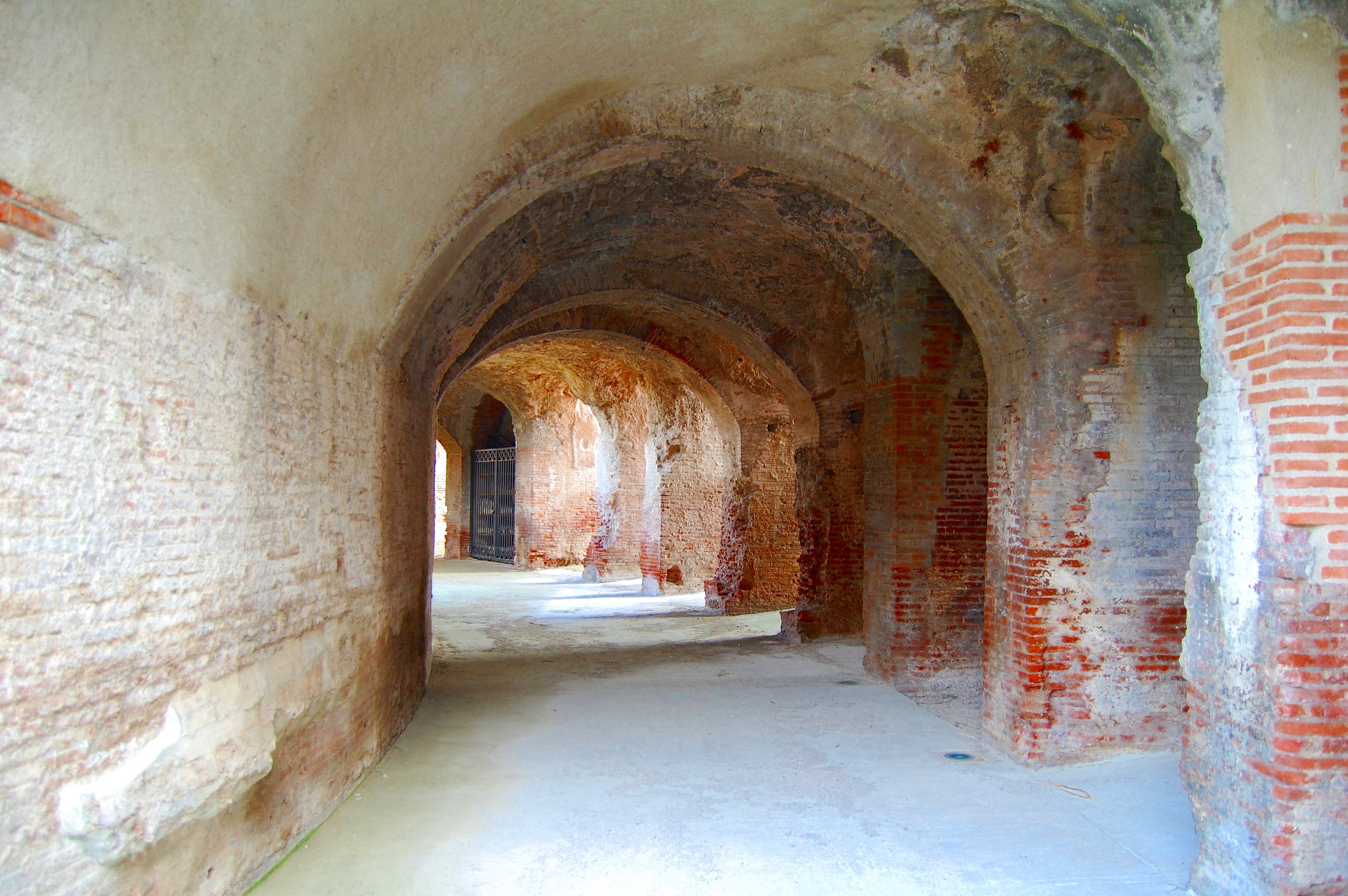 Inside the amphitheater of Santa Maria Capua Vetere